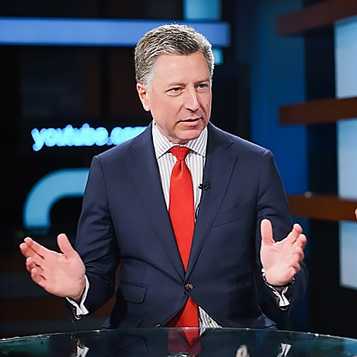 Cropped picture, Volker on tv interview